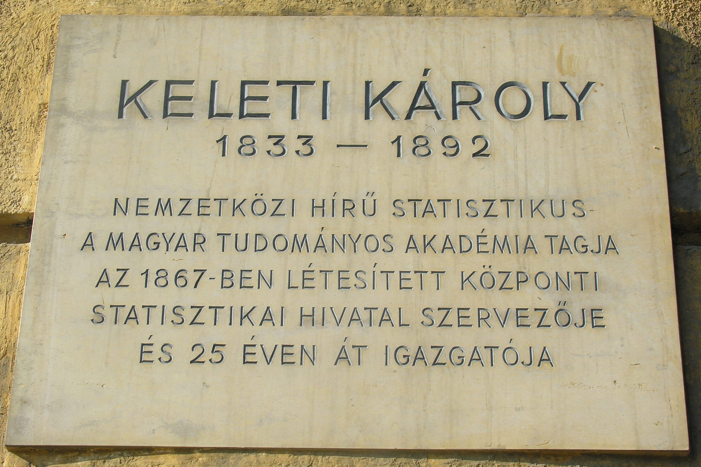 Commemorative plaque of Károly Keleti, Budapest District II, Keleti Károly Street No 18/a (on the corner of Fényes Elek Street)